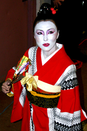 Hiroko makes her entrance on a WWE house show held in Kitchener, Ontario, Canada on January 15, 2005.hiroko